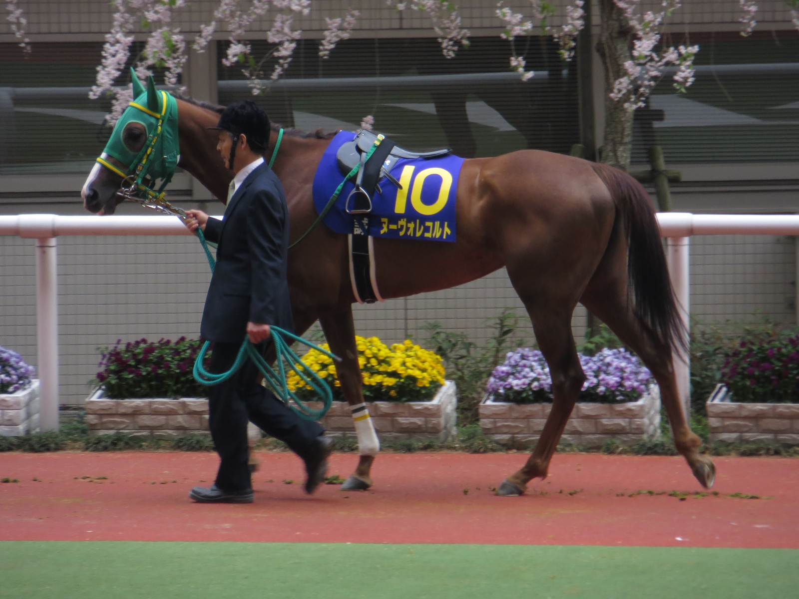 Nuovo Record (Racehorse of Japan) in 74th Oka Sho, Hanshin Racecourse.